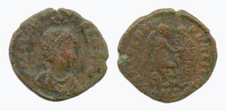 Aelia Eudoxia coin